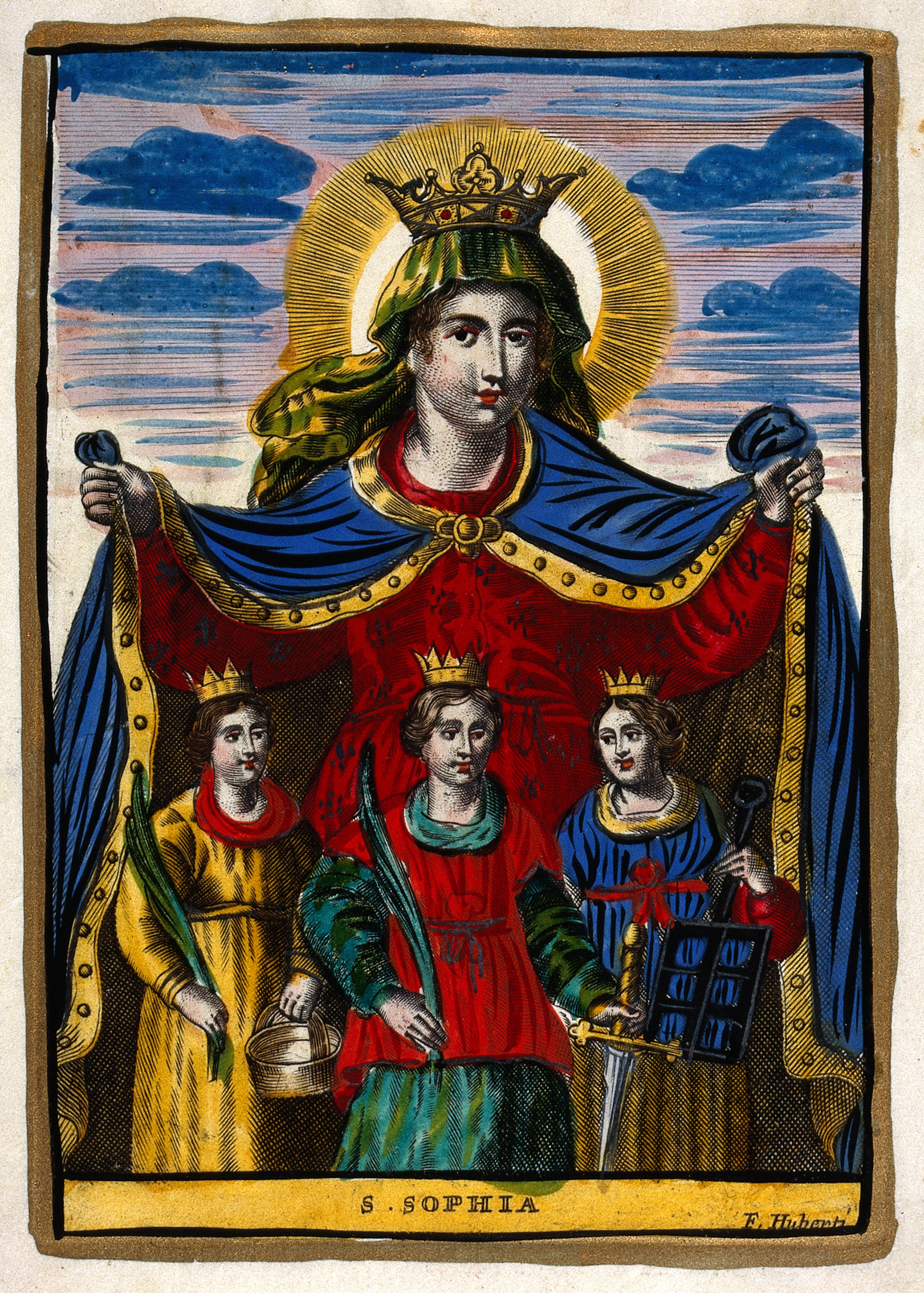 Saint Sophia. Coloured engraving by F. Huberti. Iconographic Collections